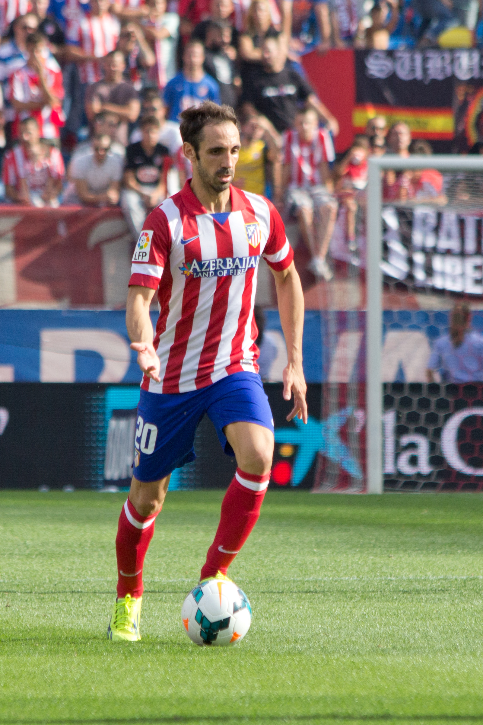 Juanfran Torres, footballer of Atlético de Madrid.